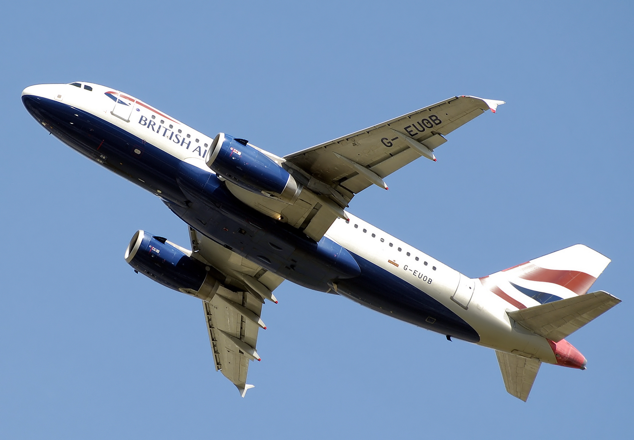 British Airways Airbus A319-100 (G-EUOB) takes off from London Heathrow Airport, England.